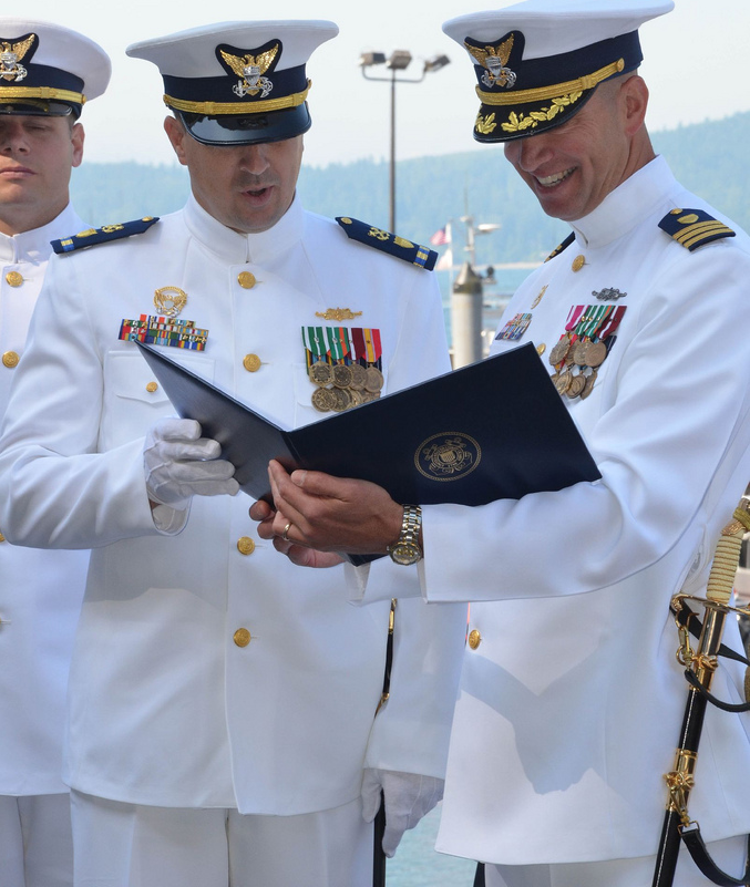 Cmdr. Thomas P. Sullivan, commanding officer of Coast Guard Maritime Force Portection Unit Bangor, presents Cheif Warrant Officer Jeffrey M. Zappen with the Coast Guard Commendation Medal during Coast Guard Cutter Sea Fox's change-of-command ceremony, July 19, 2013.